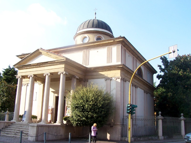 Brugherio church - Saint Lucius, Brugherio